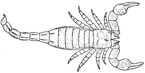 Restoration of dorsal side of Palaeophonus nuncius Thorell & Lindström. (From Pocock) The Eurypterida of New York. Volume 1. New York State Museum Memoir 14, figure 81-83